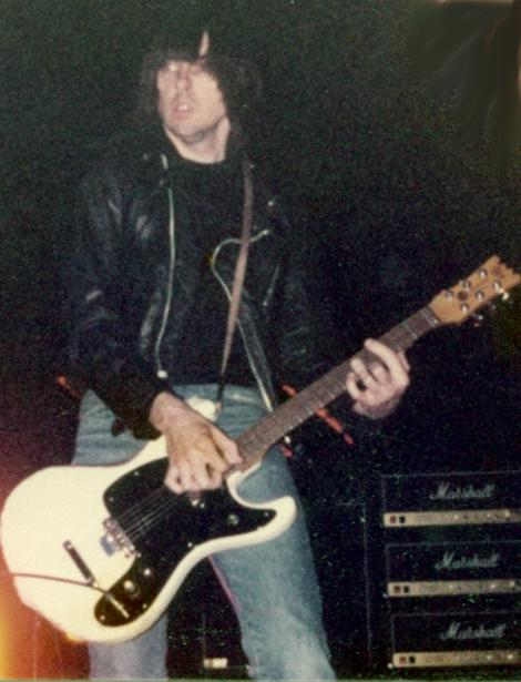 Johnny Ramone.